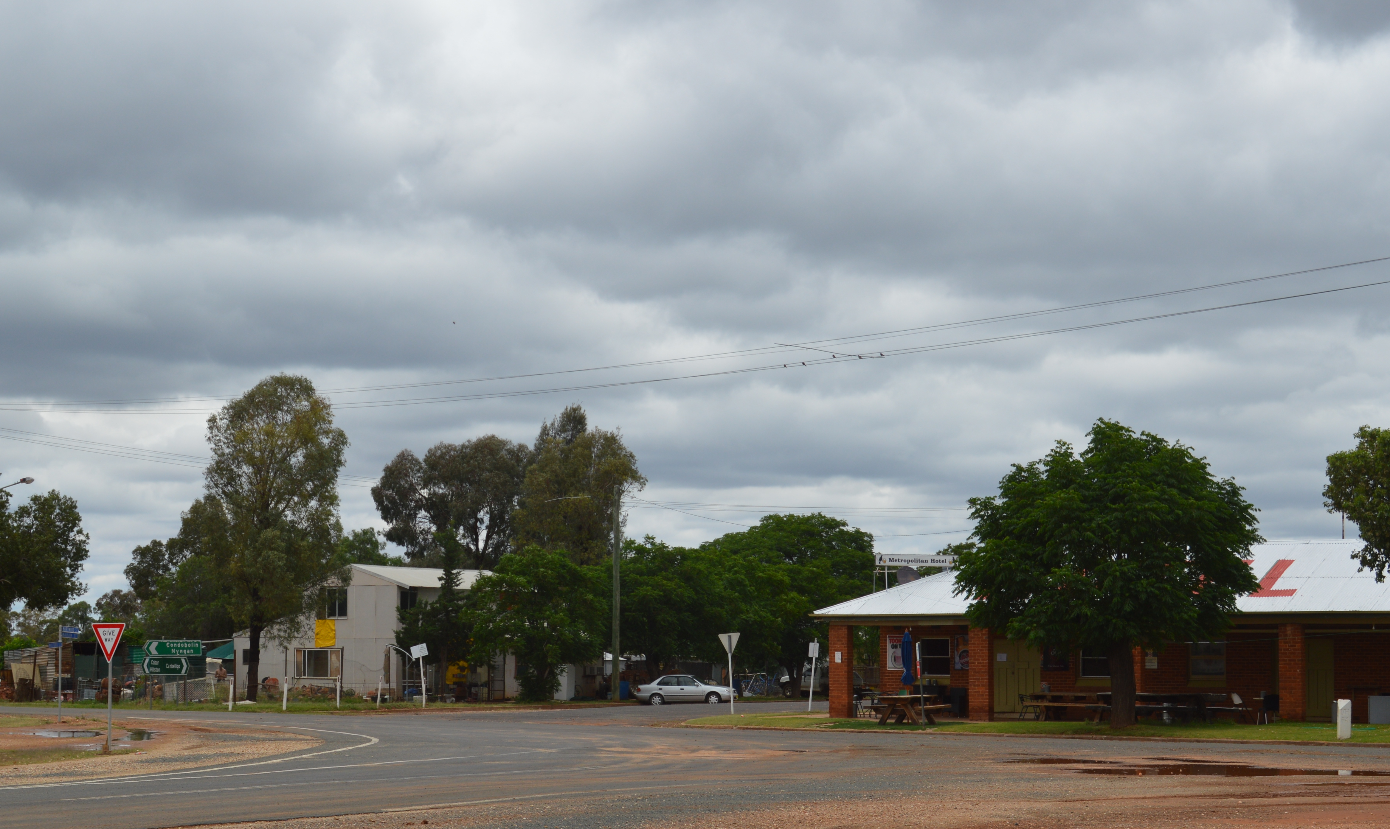 The centre of Nymagee, New South Wales